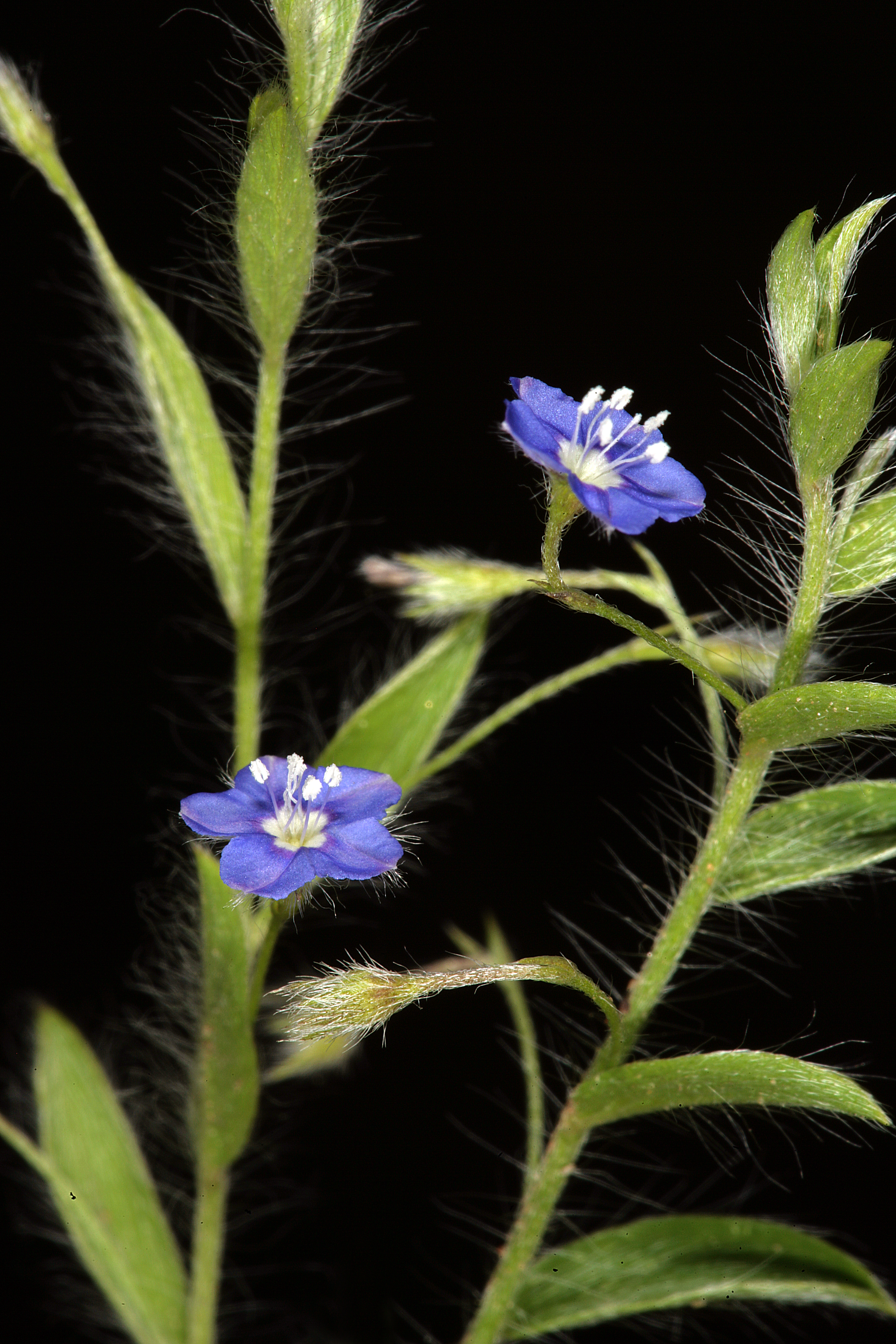 Evolvulus alsinoides, flowers; Polokwane to Modjadjiskloof (R81), near Makatopong crossing, Limpopo, South Africa